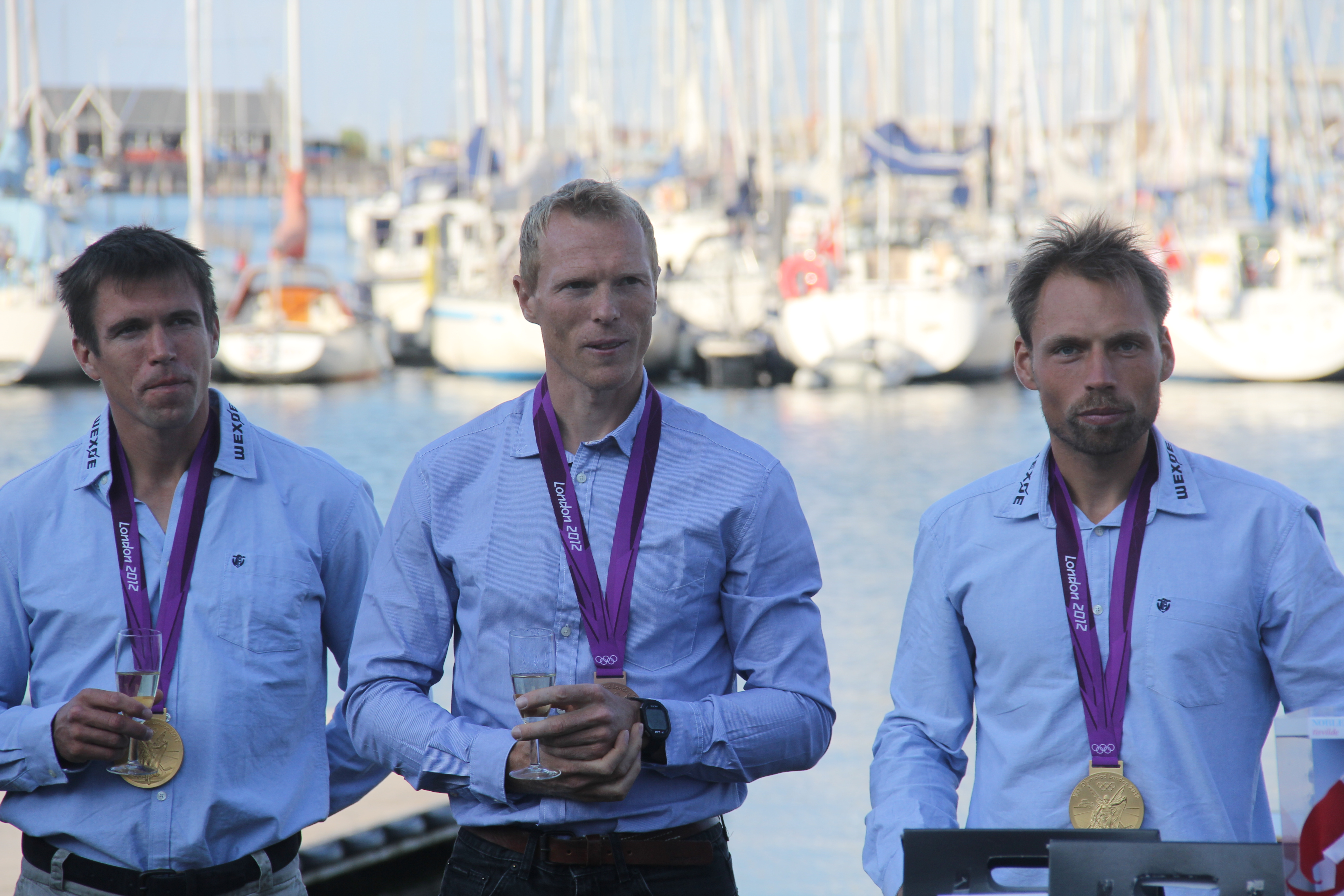 From left: Rasmussen, Ebbesen, and Quist with medals from the 2012 London Olympics.